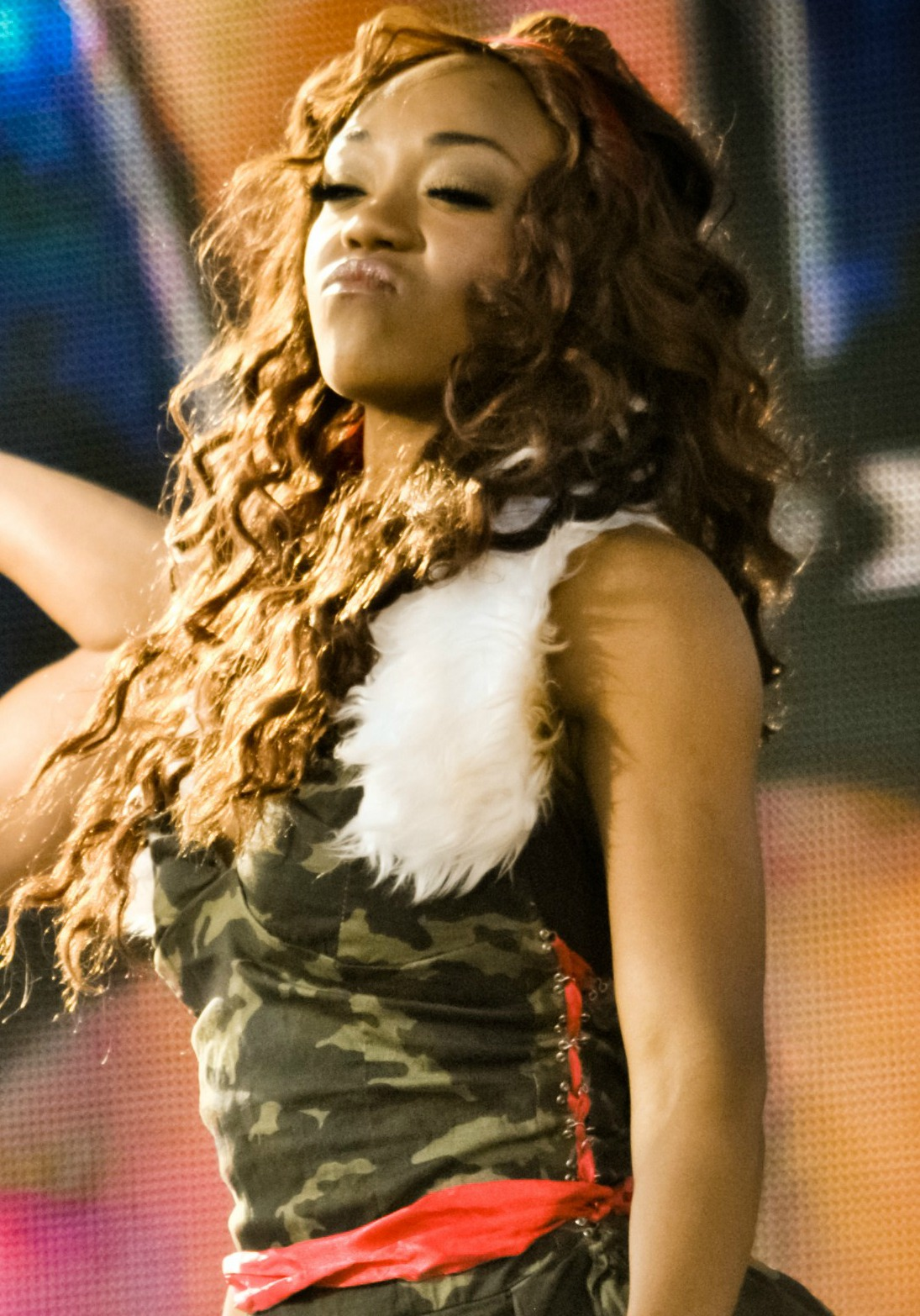 Alicia Fox at the 2010 Tribute to the Troops show held by WWE in Fort Hood, Texas, on December 11, 2010. Cropped from original.